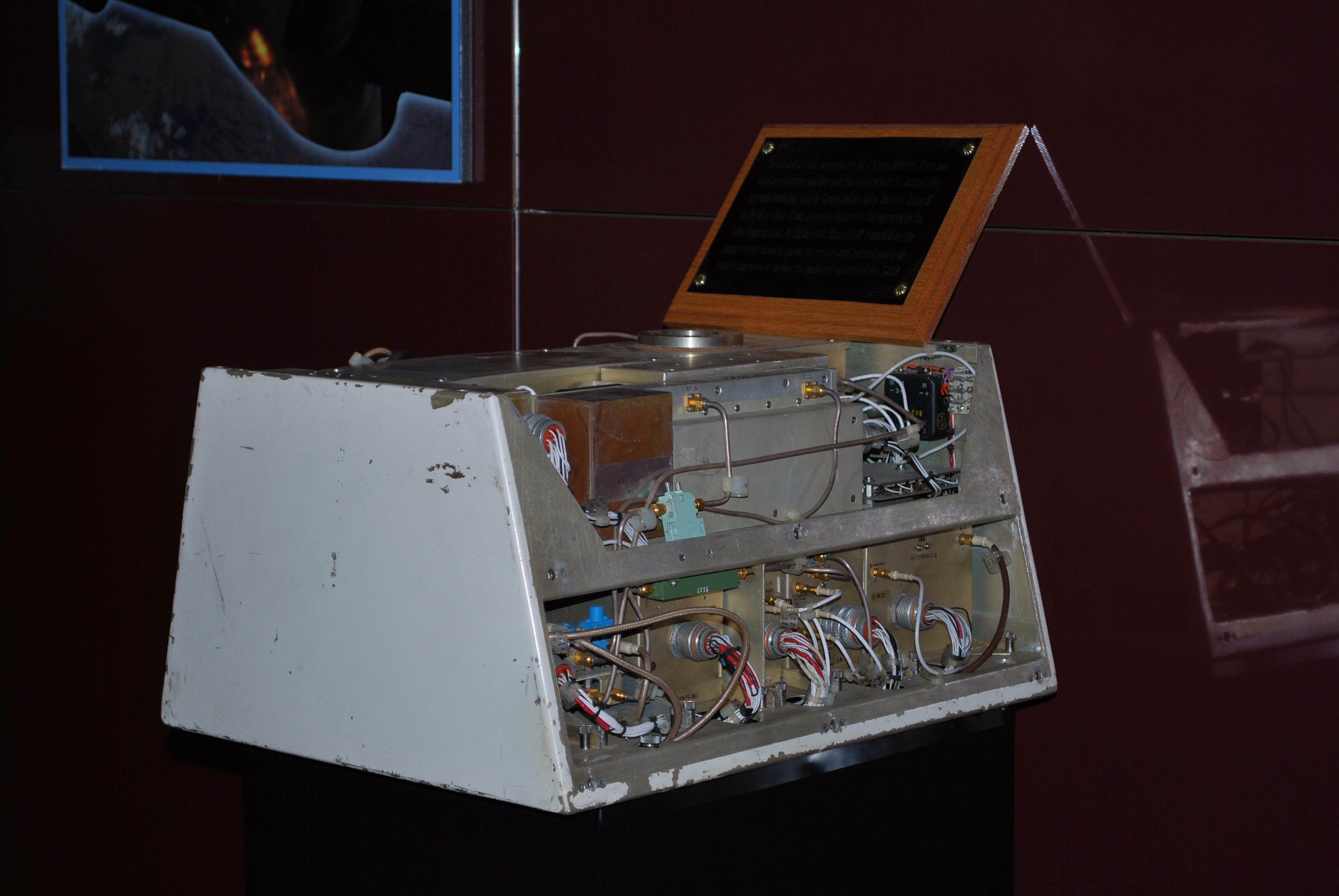 The "Defensive System B" (also called the "Def B" for short) was one of a series of electronic warfare suites for the SR-71. This system was designed to detect the radar signals from Surface to Air Missiles (SAM) and broadcast radar energy on the same frequency to confuse their guidance systems.